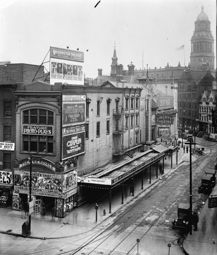 101-102 Monroe Detroit